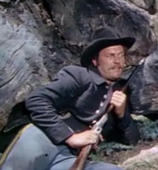 Screenshot of Ralph Meeker from the film The Naked Spur (1953)